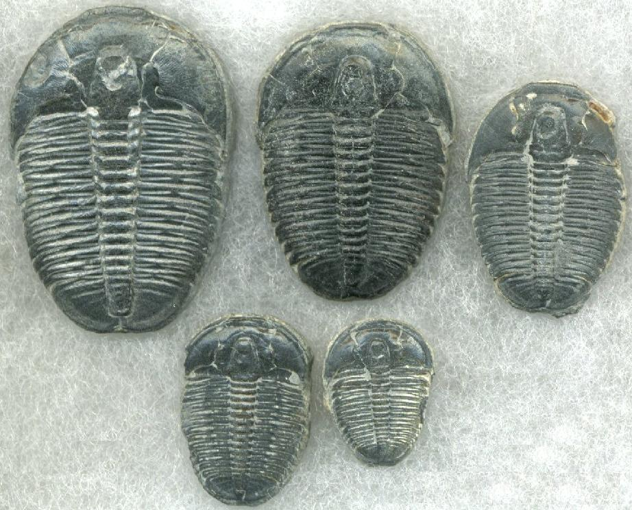 Elrathia kingii growth series with specimens from 16.2mm to 39.8mm.